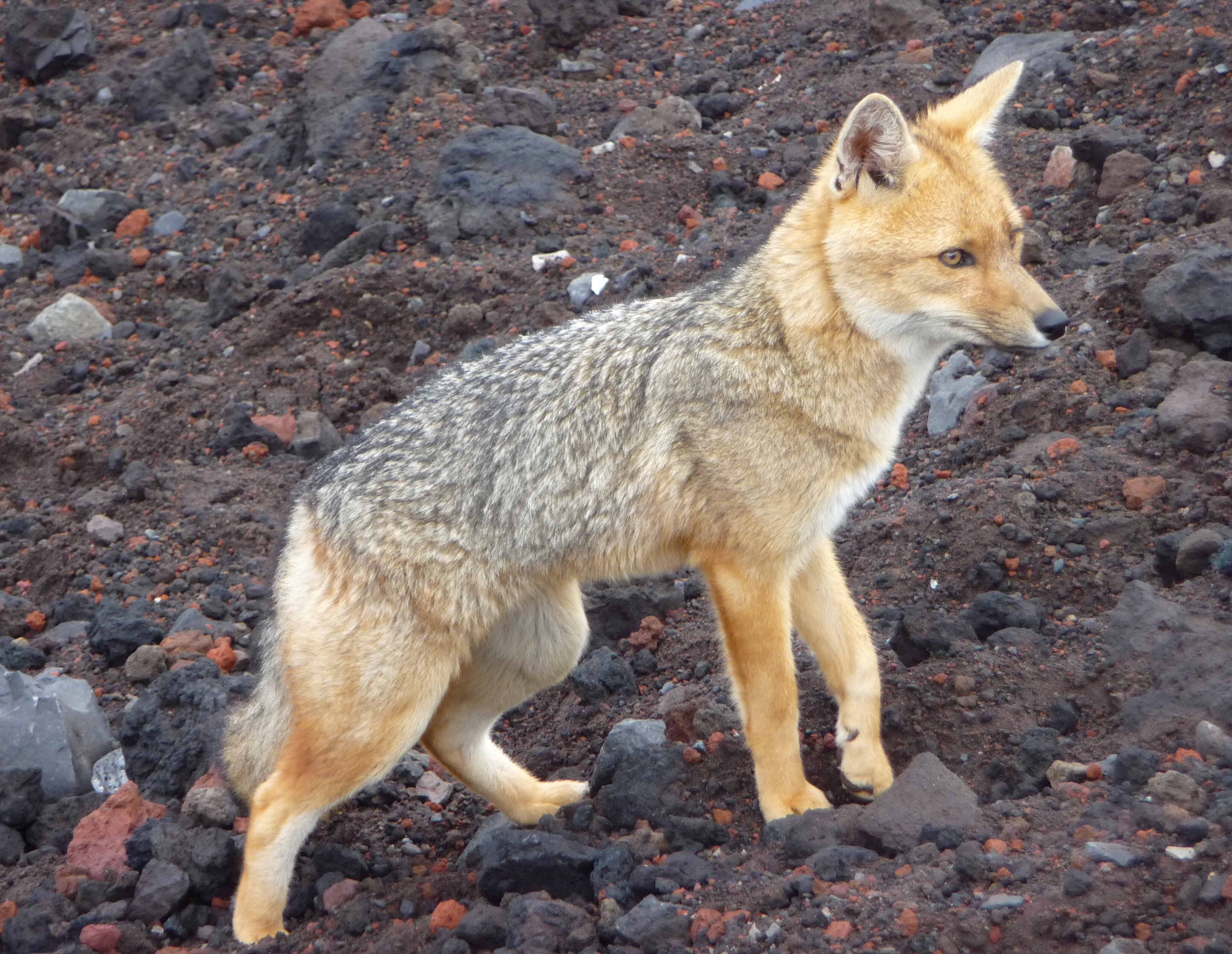 A culpeo at the foothill of Cotopaxi (Pichincha, Ecuador).